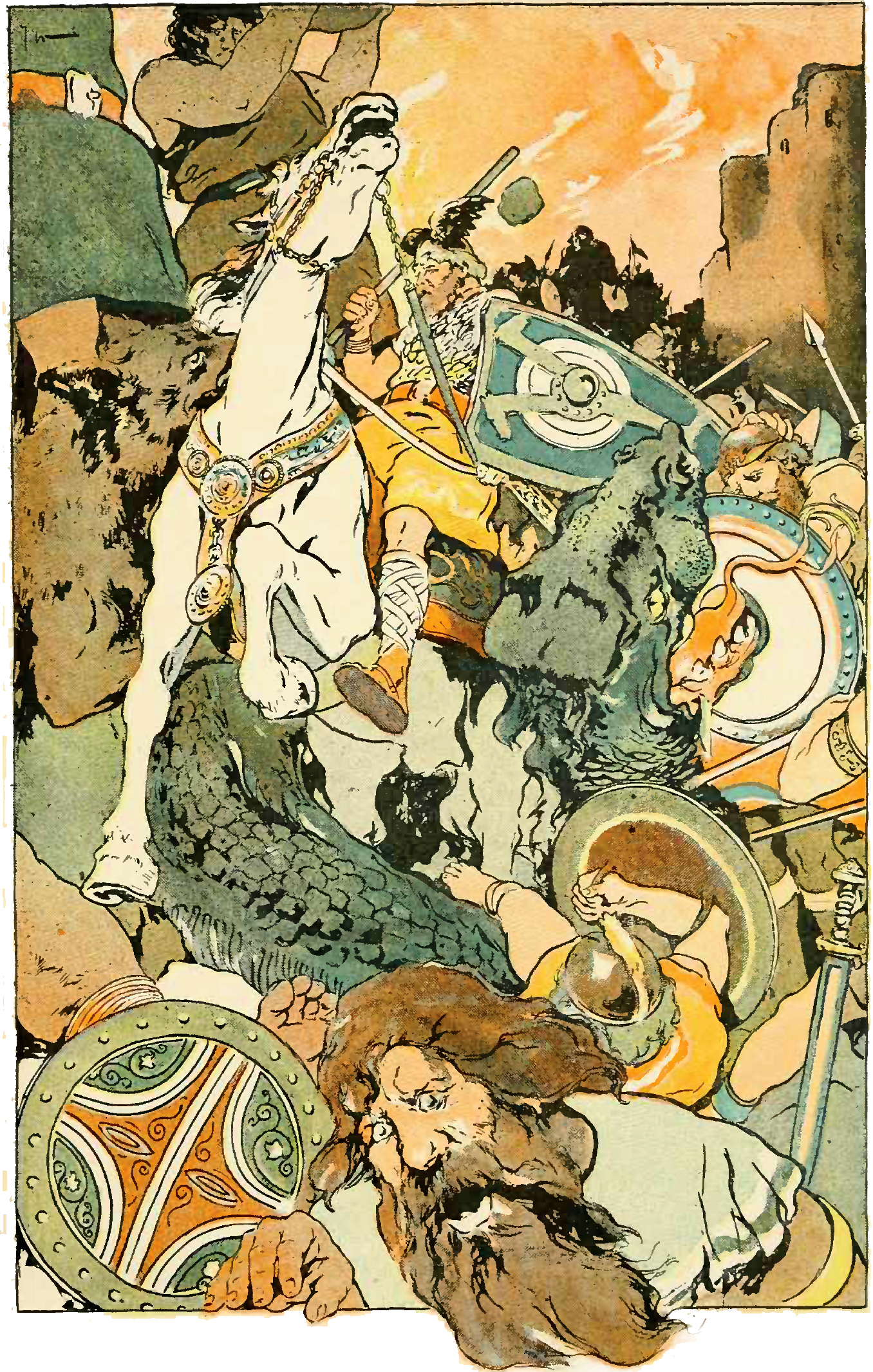 Captioned as "Then the awful fight began". Illustrating Ragnarök.